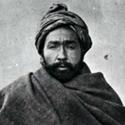 Habibullah Kalakani (a.k.a. Bacha-i Saqqao, meaning son of water carrier), the Tajik bandit who seized Kabul from the faltering hands of Afghan King Amanullah Khan in January 1929. He was ousted in the same year by Nadir Khan and executed by hanging in early November 1929. [1]